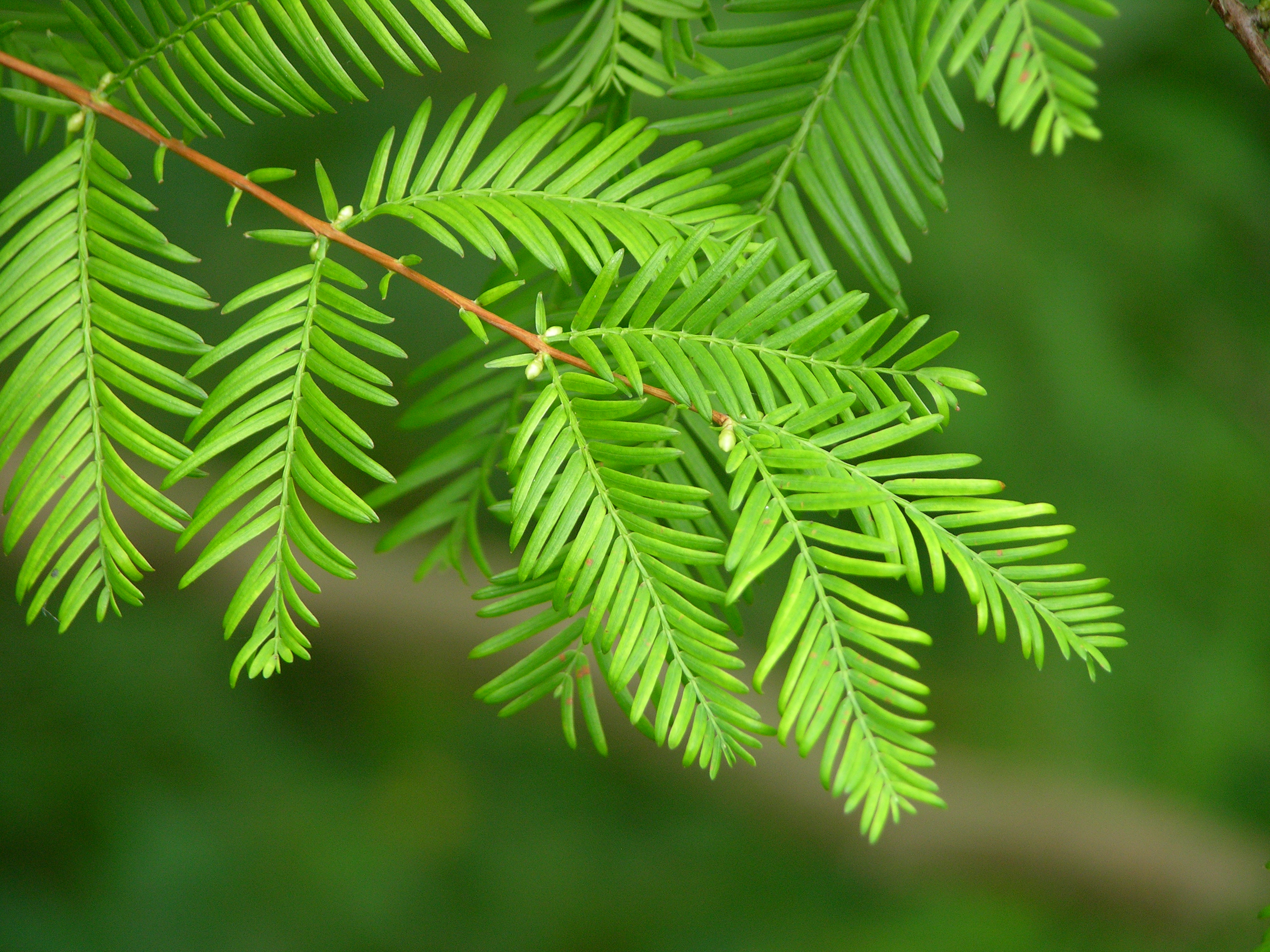 Photograph of the needles of the Dawn Redwood (Metasequoia glyptostroboides). Photo taken at the Tyler Arboretum where it was identified.